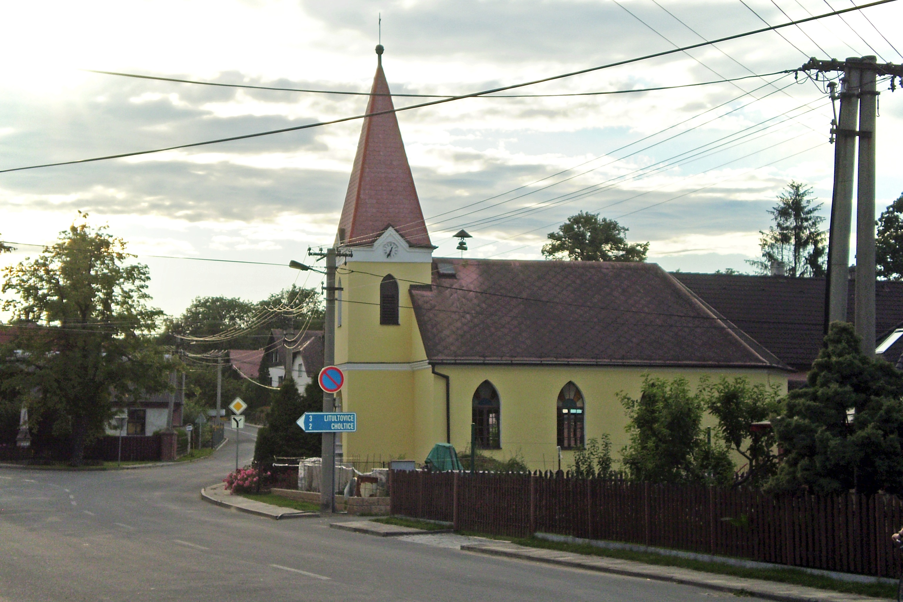 Chapel in village Jezdkovice in Moravian-Silesian Region, Czech Republic.